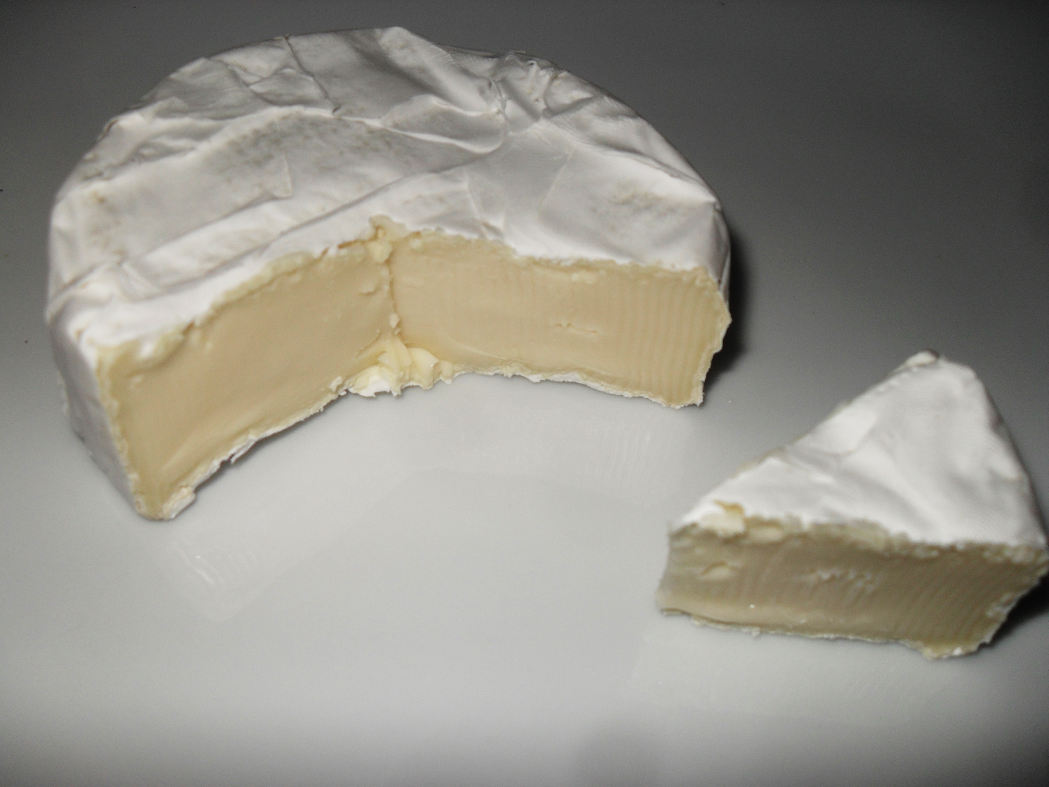 Camembert cheese from Piedmont.